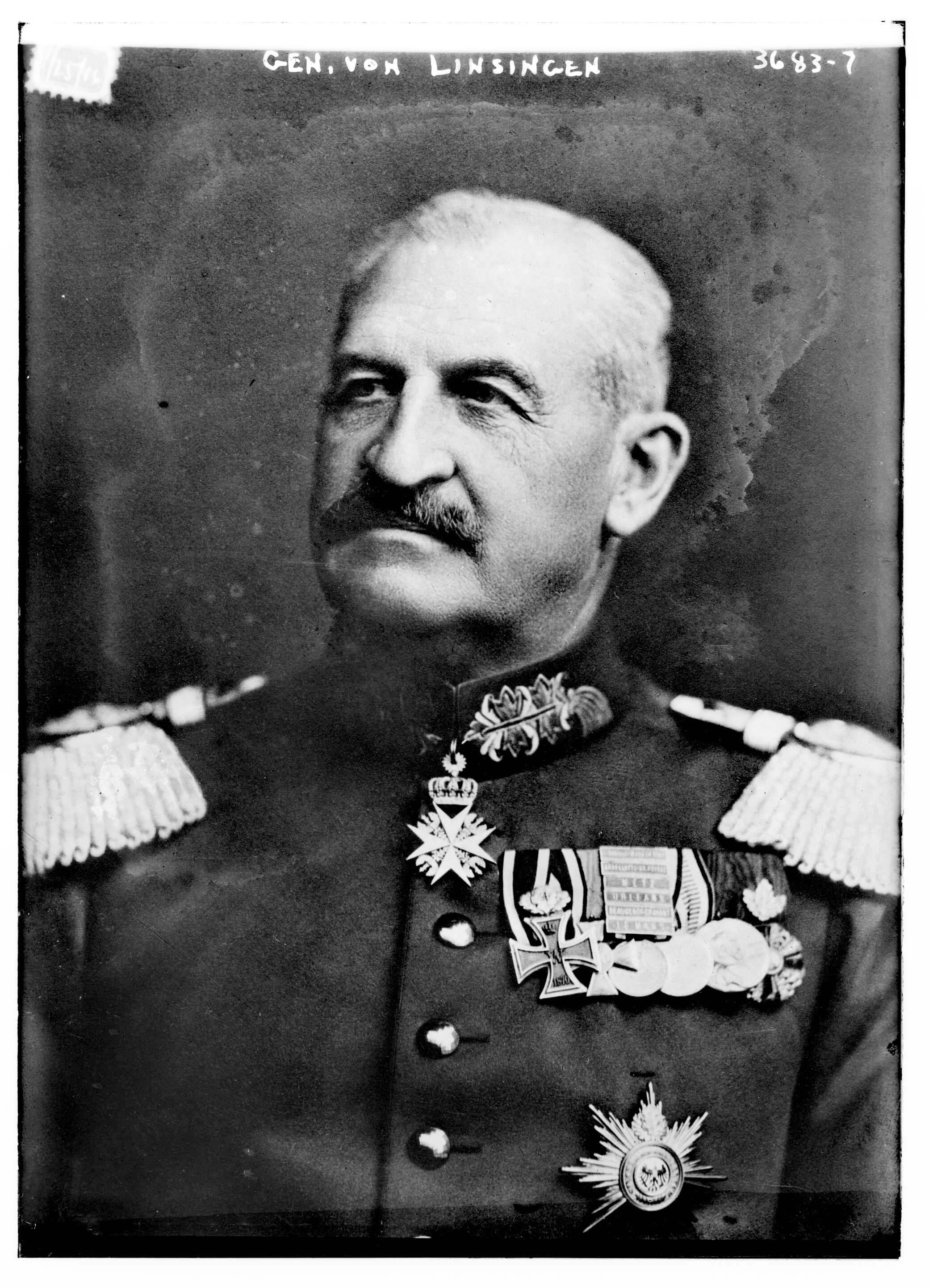 Title: Gen. von Linsingen, 1/25/16 Abstract/medium: 1 negative : glass ; 5 x 7 in. or smaller.